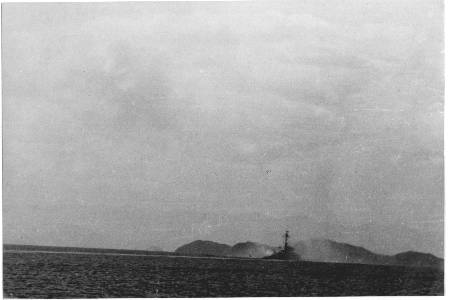 USS Pirate just after being struck by a North Korean sea mine on 12 October 1950. Viewed from USS Endicott.